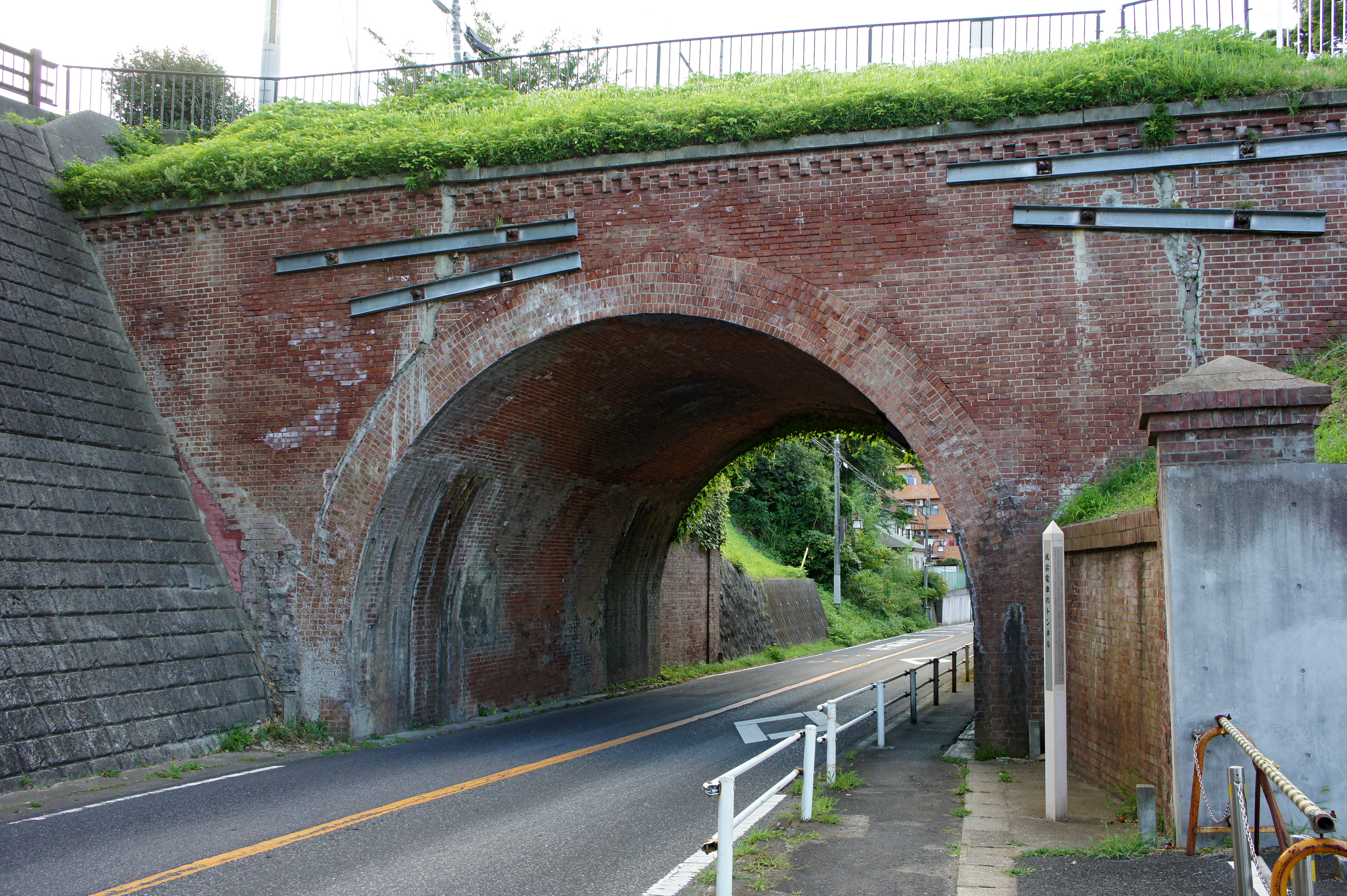 Ruins of Seiso Electric Railroad at Narita, Chiba prefecture, Japan